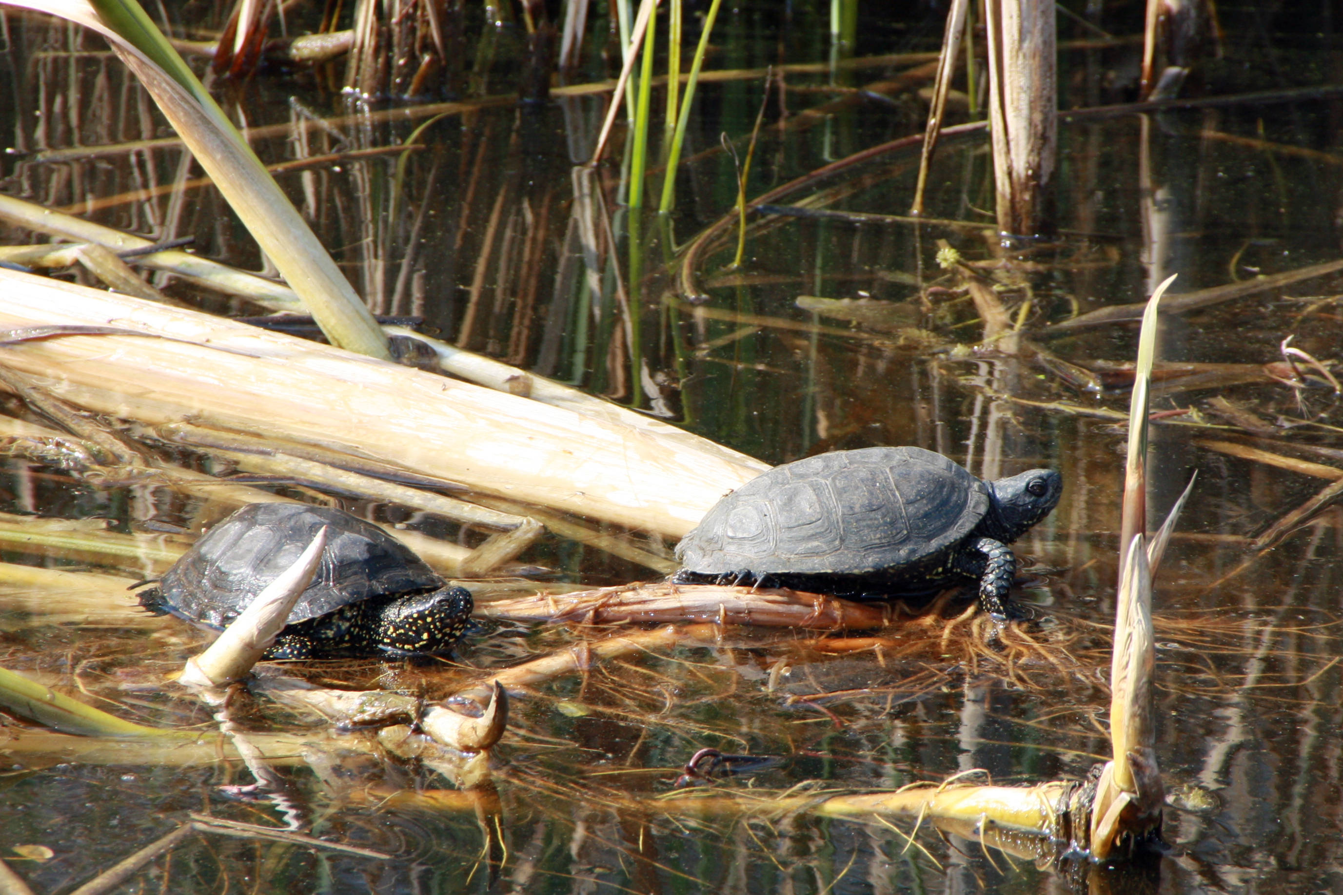 Terrapins in the wildlife park in Bad Mergentheim, Germany